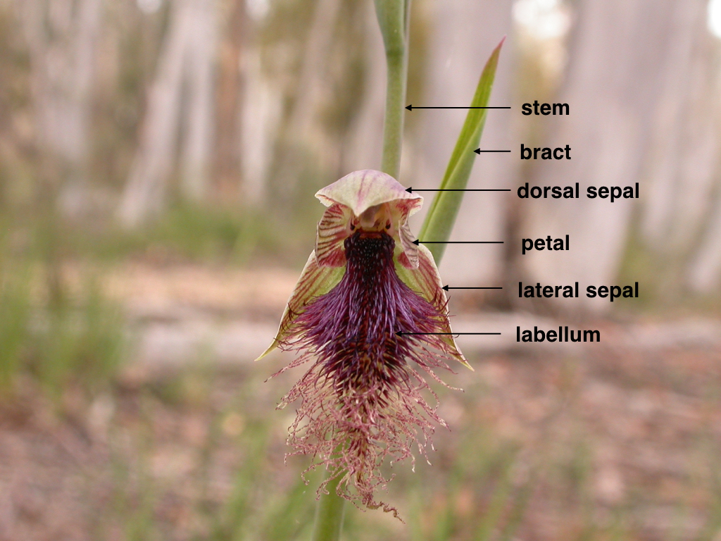 Calochilus platychilus (labelled image)